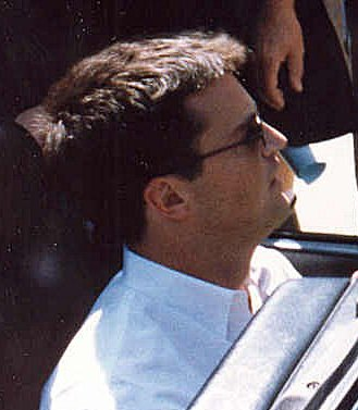 Actor Matthew Perry pictured in September 1995, surrounded by fans and parrazzi